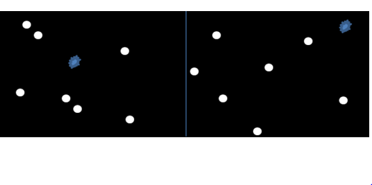 Indistinguishable and distinguishable particles